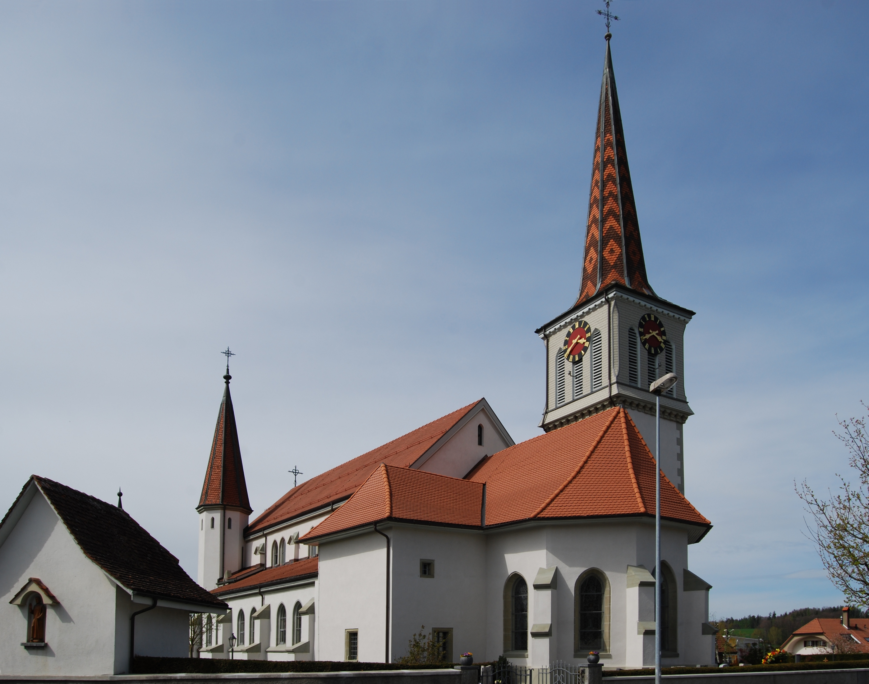 Catholic Church of Gurmels, canton of Fribourg, Switzerland